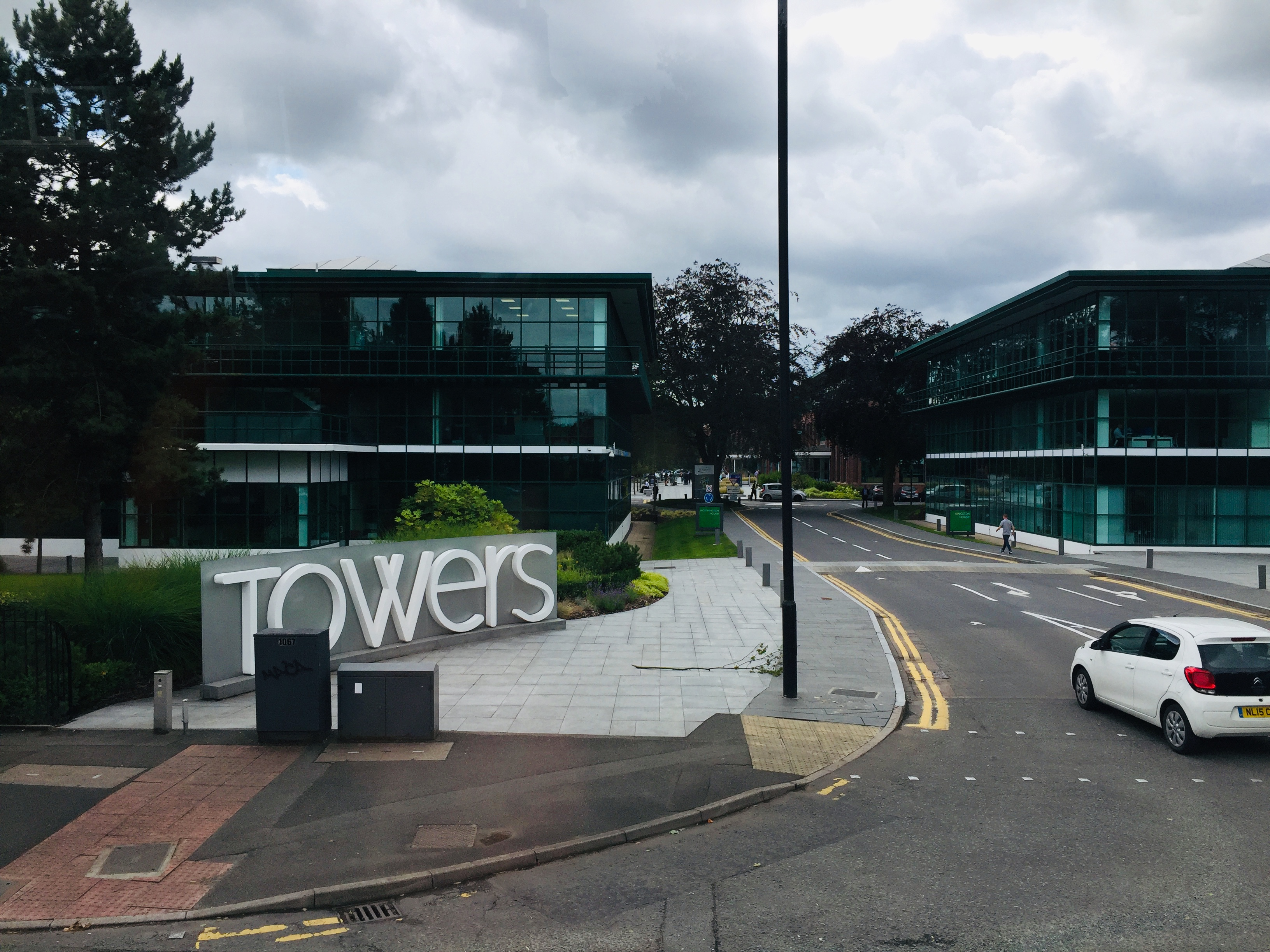 The Towers Didsbury entrance